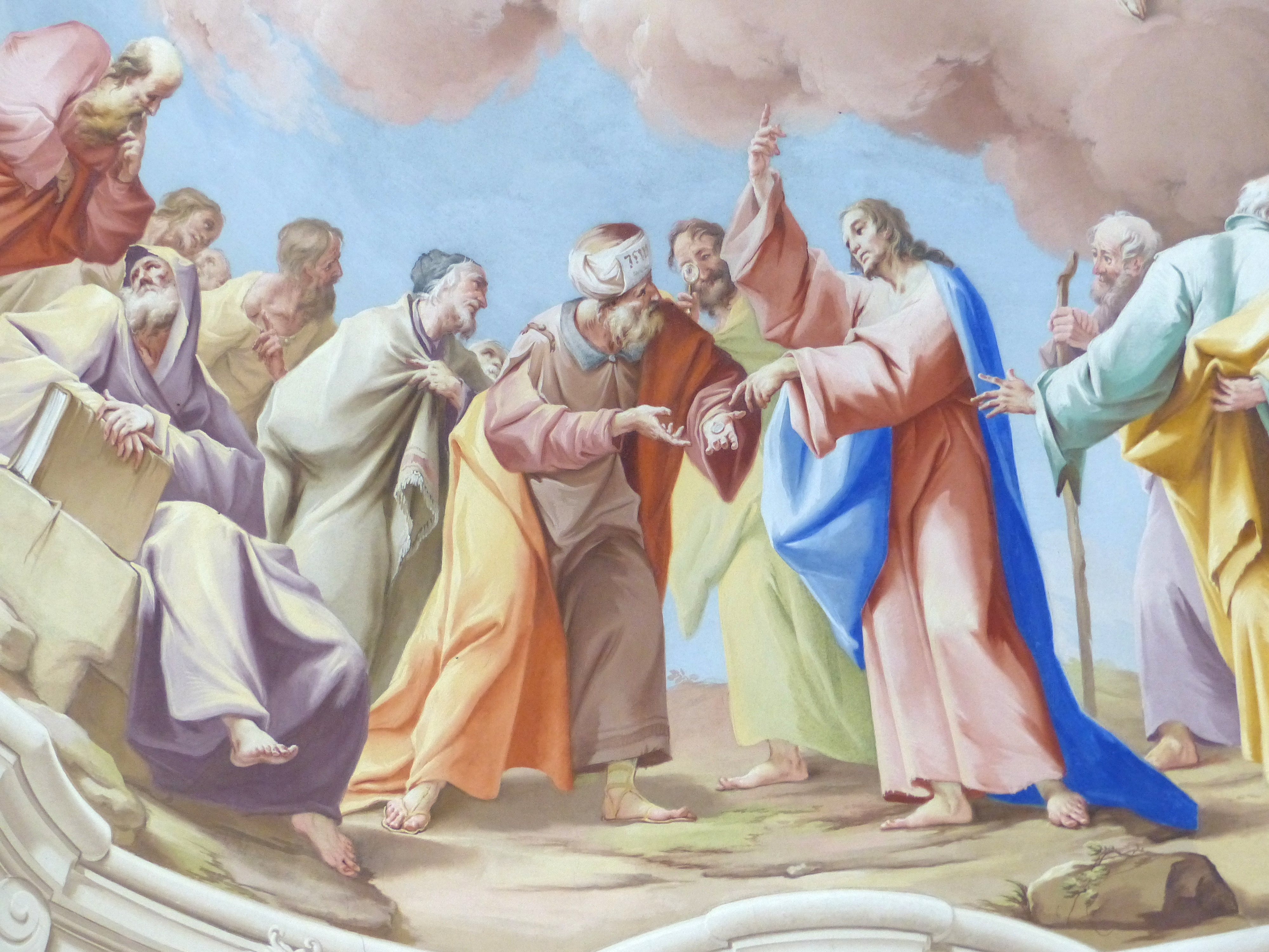 Altenburg Abbey ( Lower Austria ). Library: Fresco ( 1742 ) in the northern dome by Paul Troger - Render unto Caesar ( Matthew 22,21 )